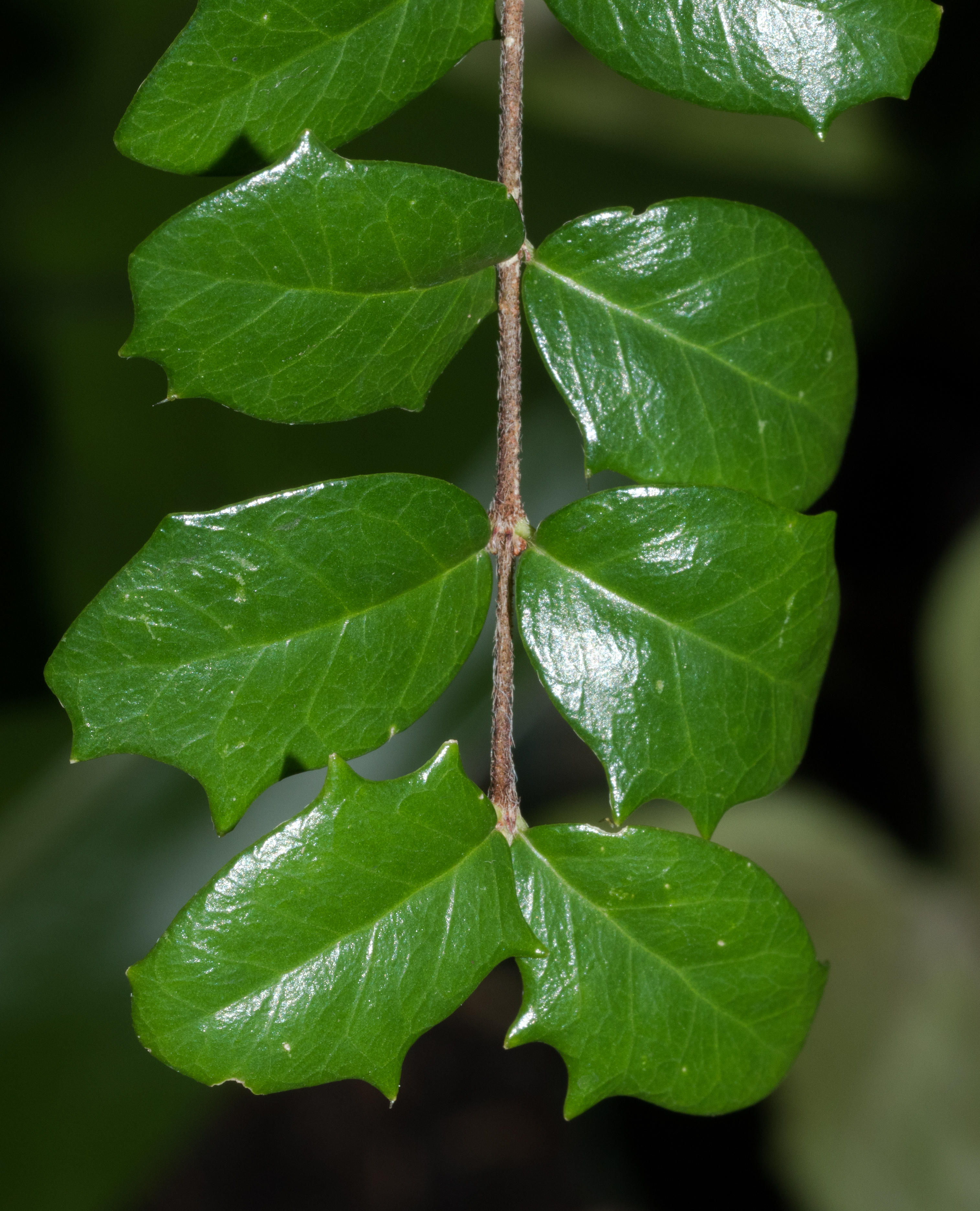 Dwarf holly (Malpighia coccigera) leaves at Brooklyn Botanic Garden Brooklyn Botanic Garden in January 2019